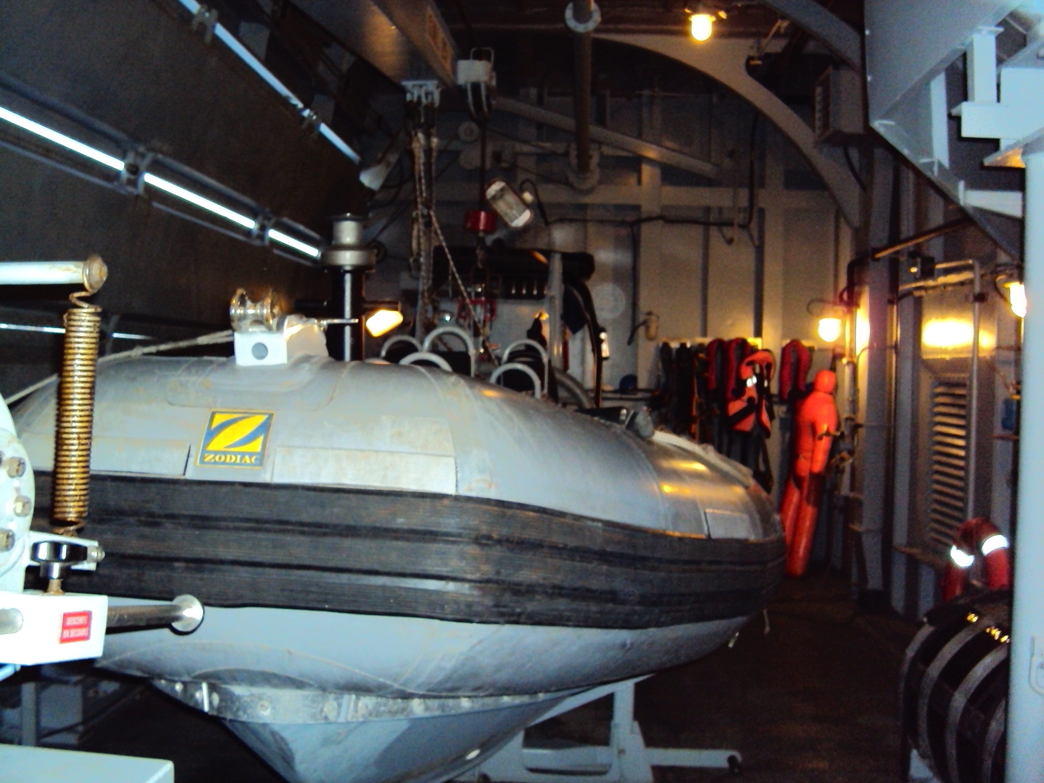 On board zodiac on forbin frigate